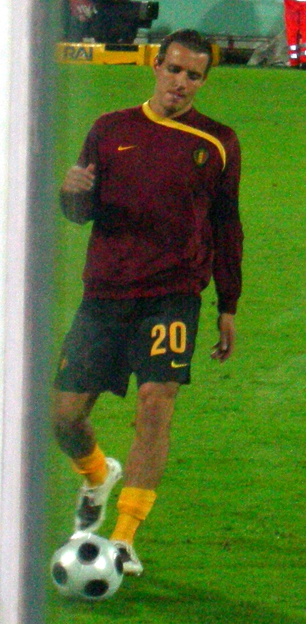 Player photo, made during the friendly football match Italy vs Belgium, played May 30, 2008 in Florence (Italy)